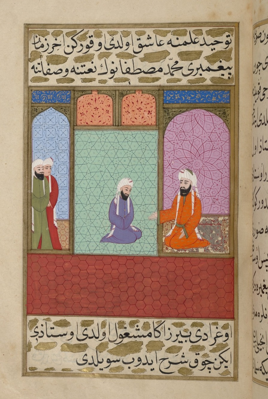 Salmân and his religious instructor have read a holy book predicting the coming of the Prophet and discuss this matter. (1594 - 1595)